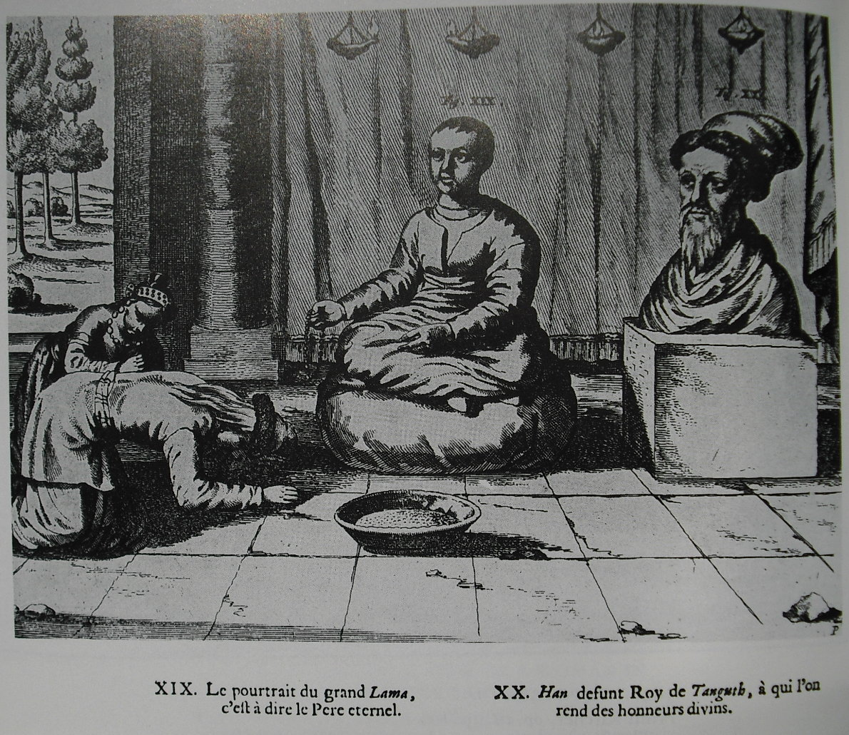 Statues of Lozang Gyatso, 5th Dalai Lama (then alive) and the deceased "Khan" (identified by Lach & van Kleyn as Güshi Khan) seen by Johann Grueber in the lobby of the Dalai Lama's palace in Lhasa in 1661.